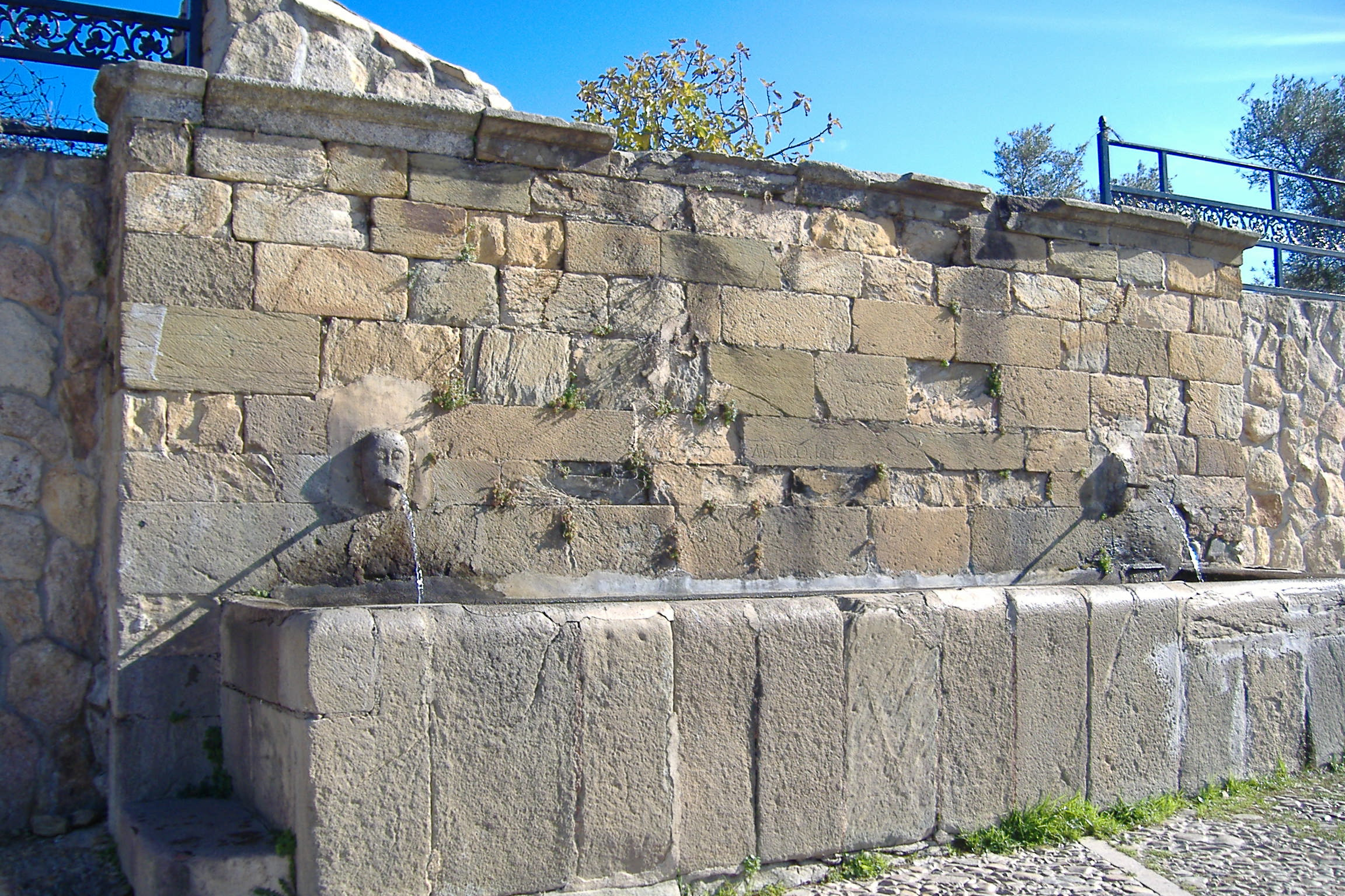 Fountain of La Breña in Talaván (Extremadura, Spain)